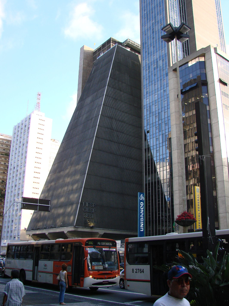 Avenida Paulista in Sao Paulo, Brazil